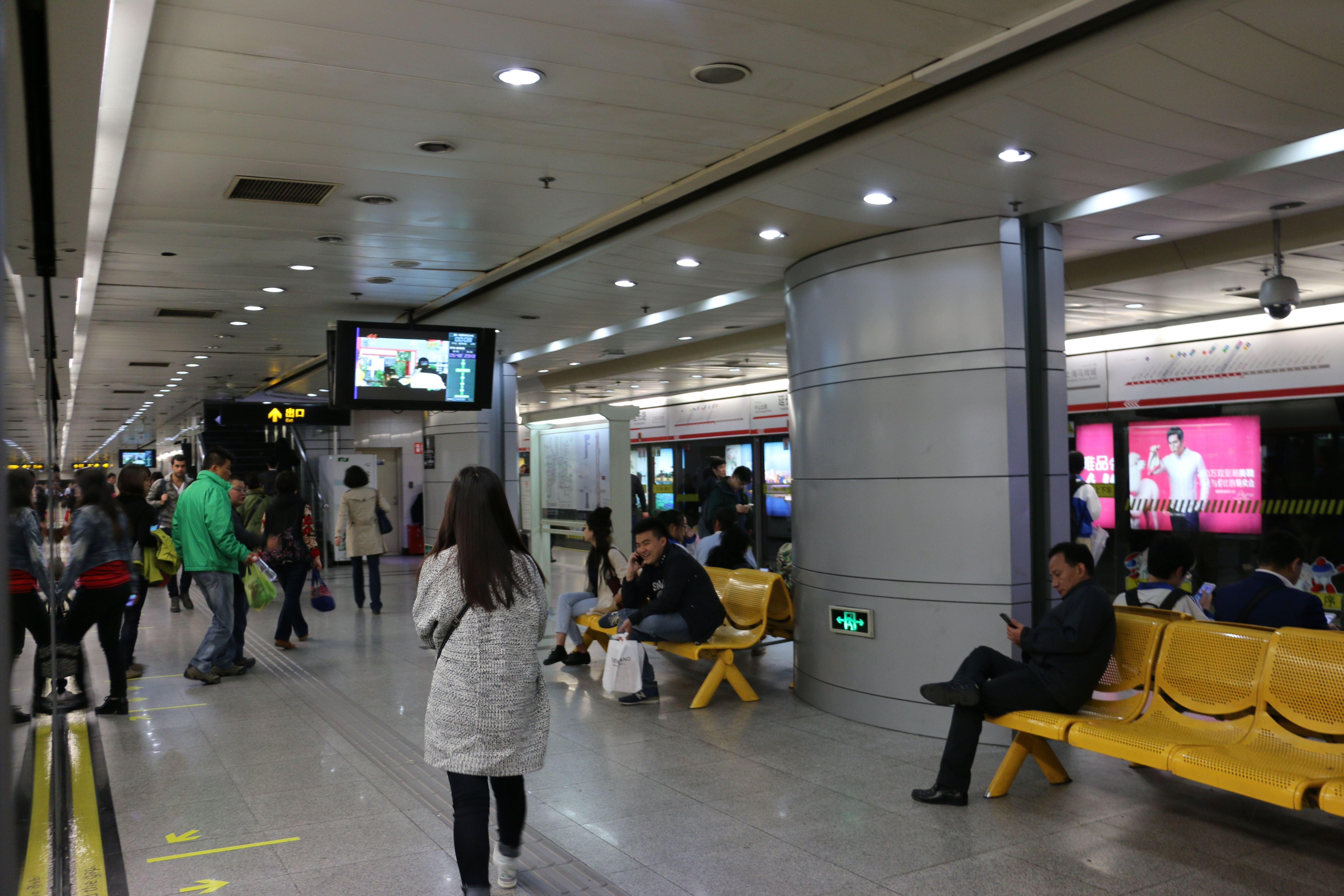 201604 Platform of Yanchang Road Station